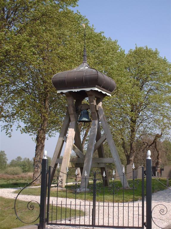 wooden bell tower in Spanga, Friesland, Netherlands